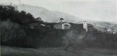 Bukovo monastery